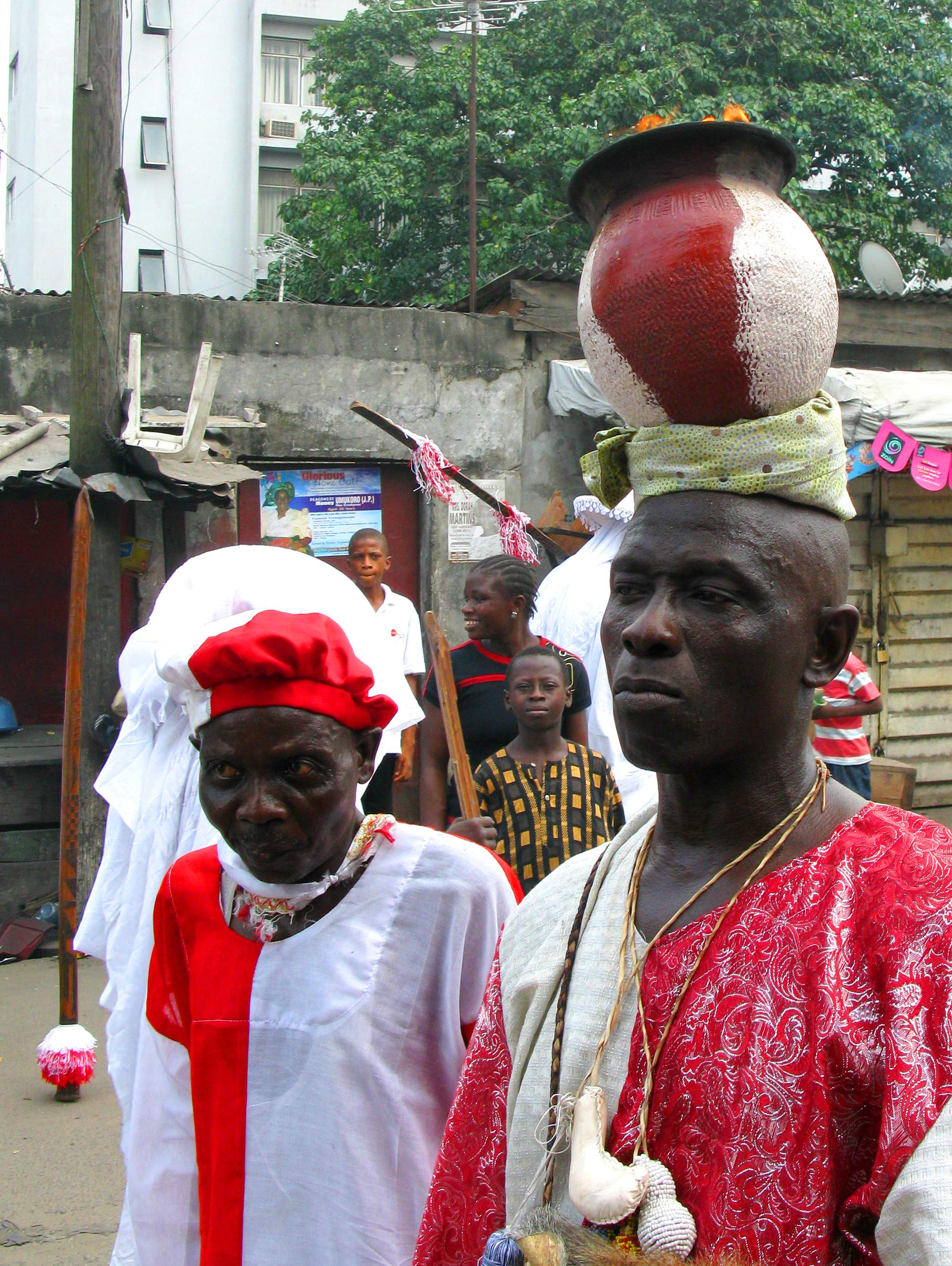 The Deity of Ineso carrying a burning pot of ritual power on his head as part of an Eyo Bajulaiye Ineso procession in a residential area of Lagos Island, in Lagos State of Nigeria. His known as the Orisa of Eyo Iga Bajulaiye Ineso. The Eyo Iga Bajulaiye Ineso are known for their fierce might and toughness among all eyo's, this is an attribute to the fact that majority of their members are from the Lafiaji area of the Island.